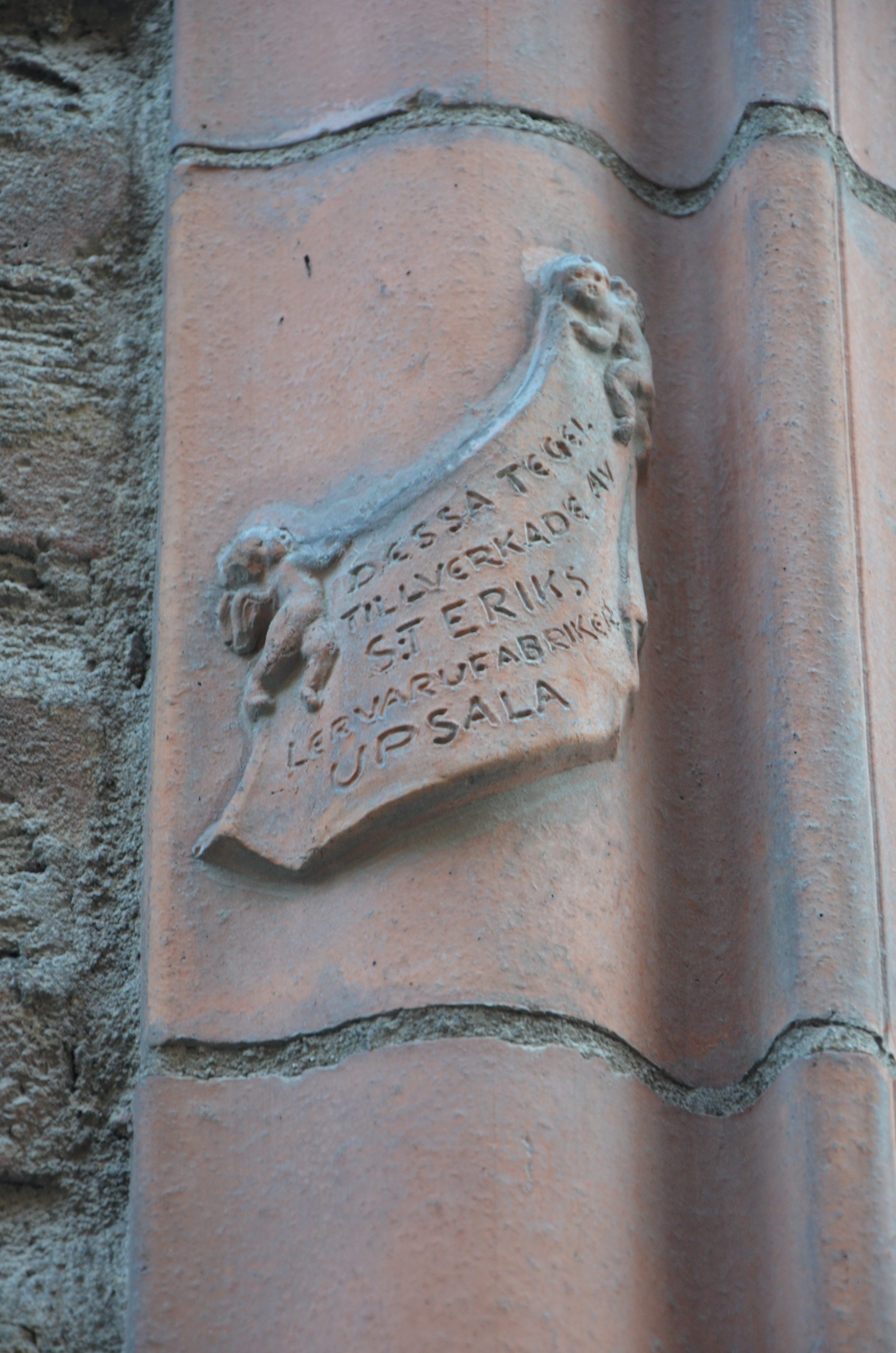 Fasadtegel från Sankt Eriks cementvarufabrik Uppsala, på Centrumhuset Sveavägen/Kungsgatan i Stockholm